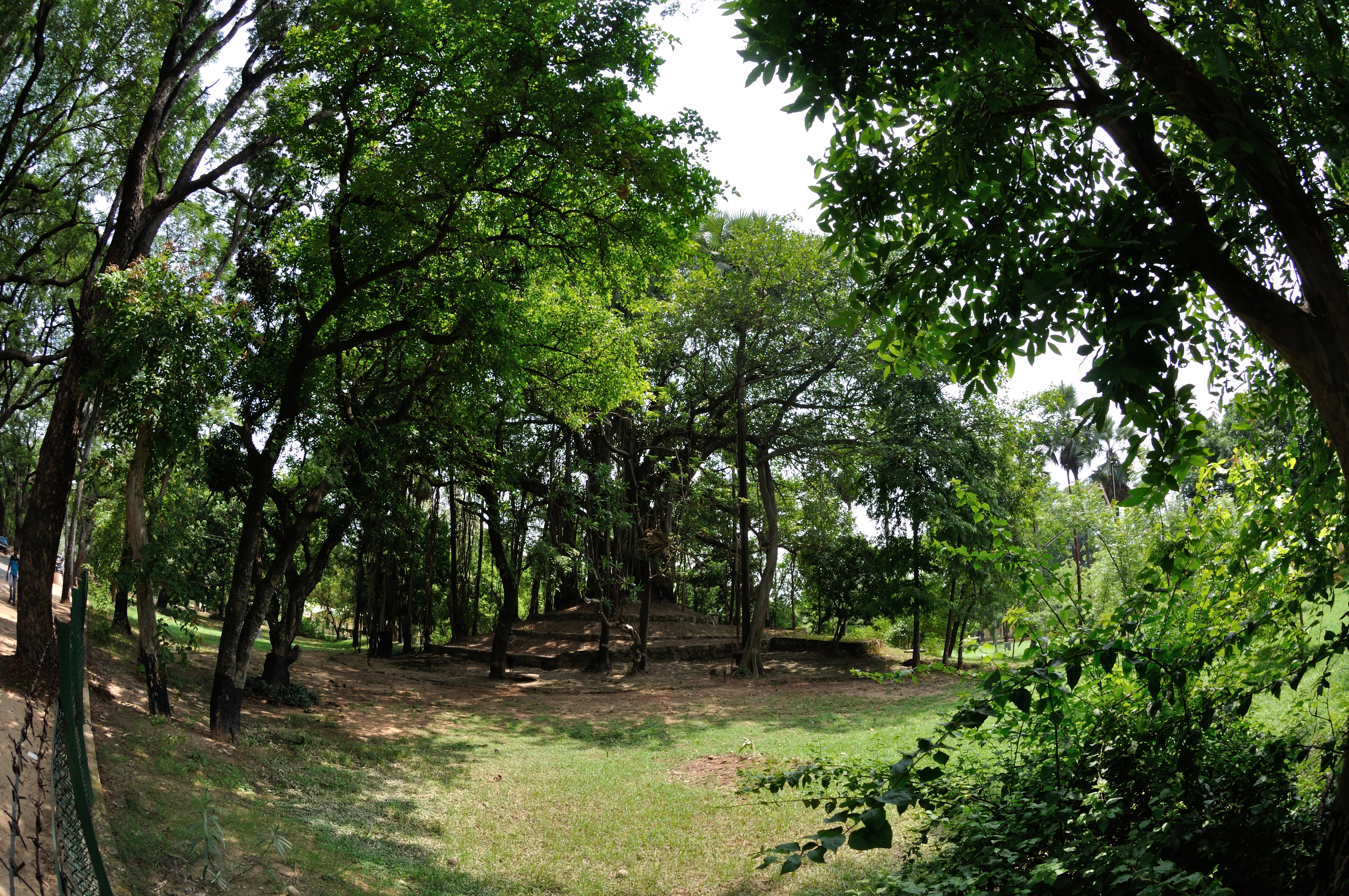 Photographed at the Visva-Bharati, Santiniketan.